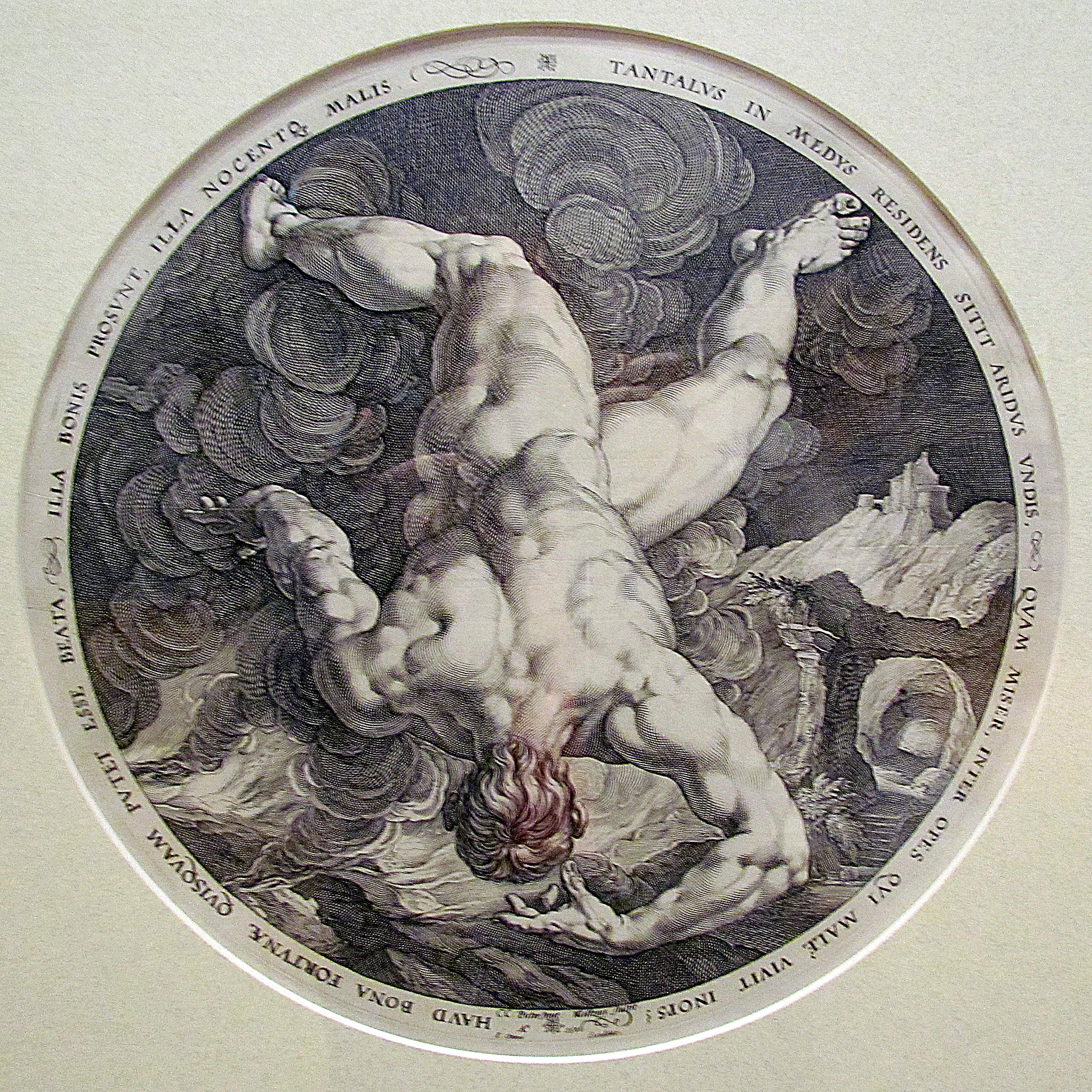 Hendrick Goltzius, Tantalus, before 1720, engraving, National Museum of Serbia